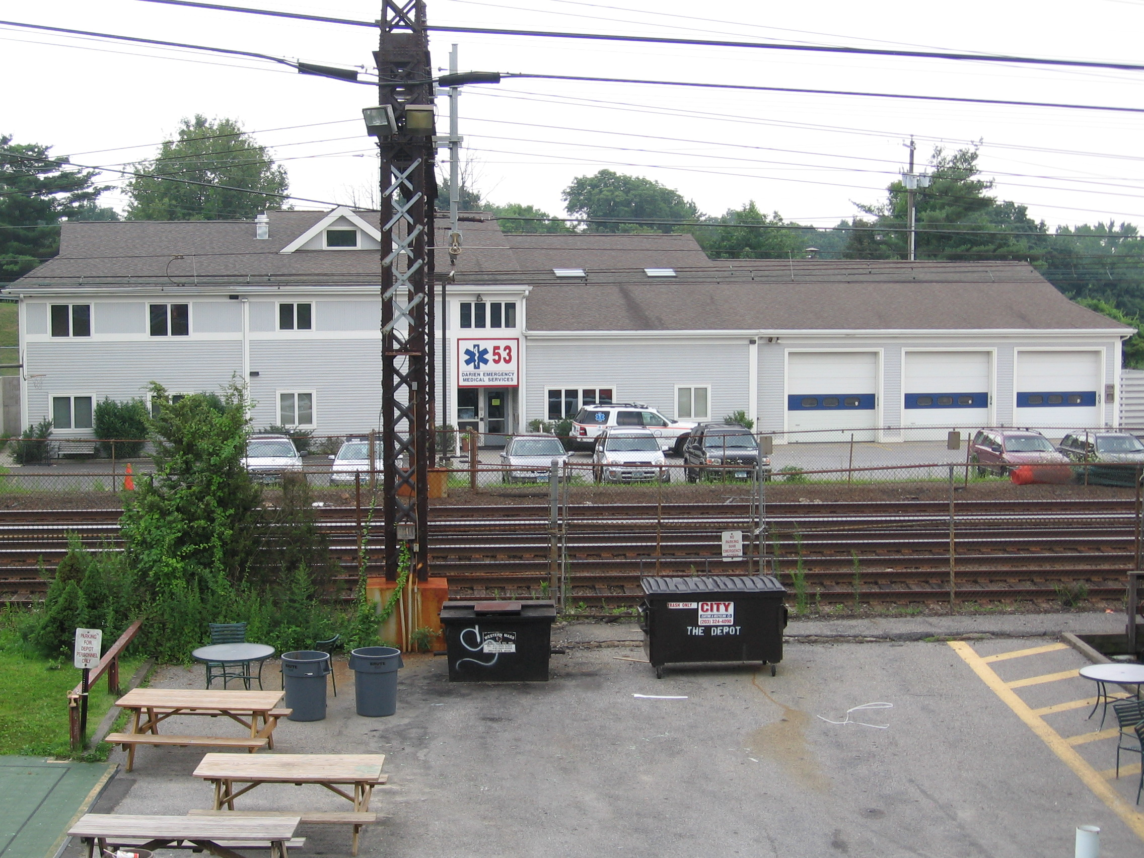 Headquarters of Post 53, a scouting explorer post and the ambulance service for Darien, as seen from across the Metro-North railroad tracks in the Noroton Heights section of town.